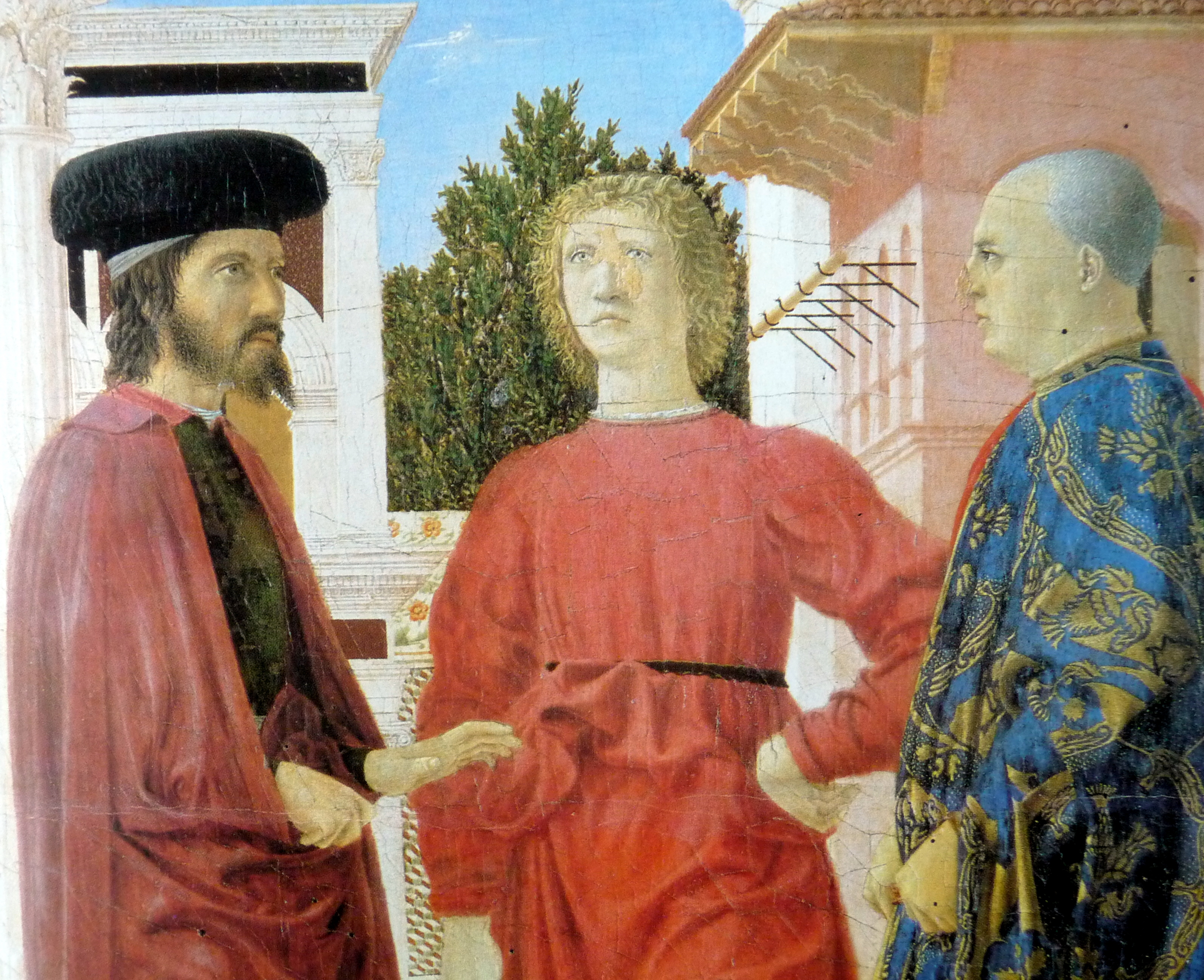 Piero della Francesca, The Flagellation of Christ. detail